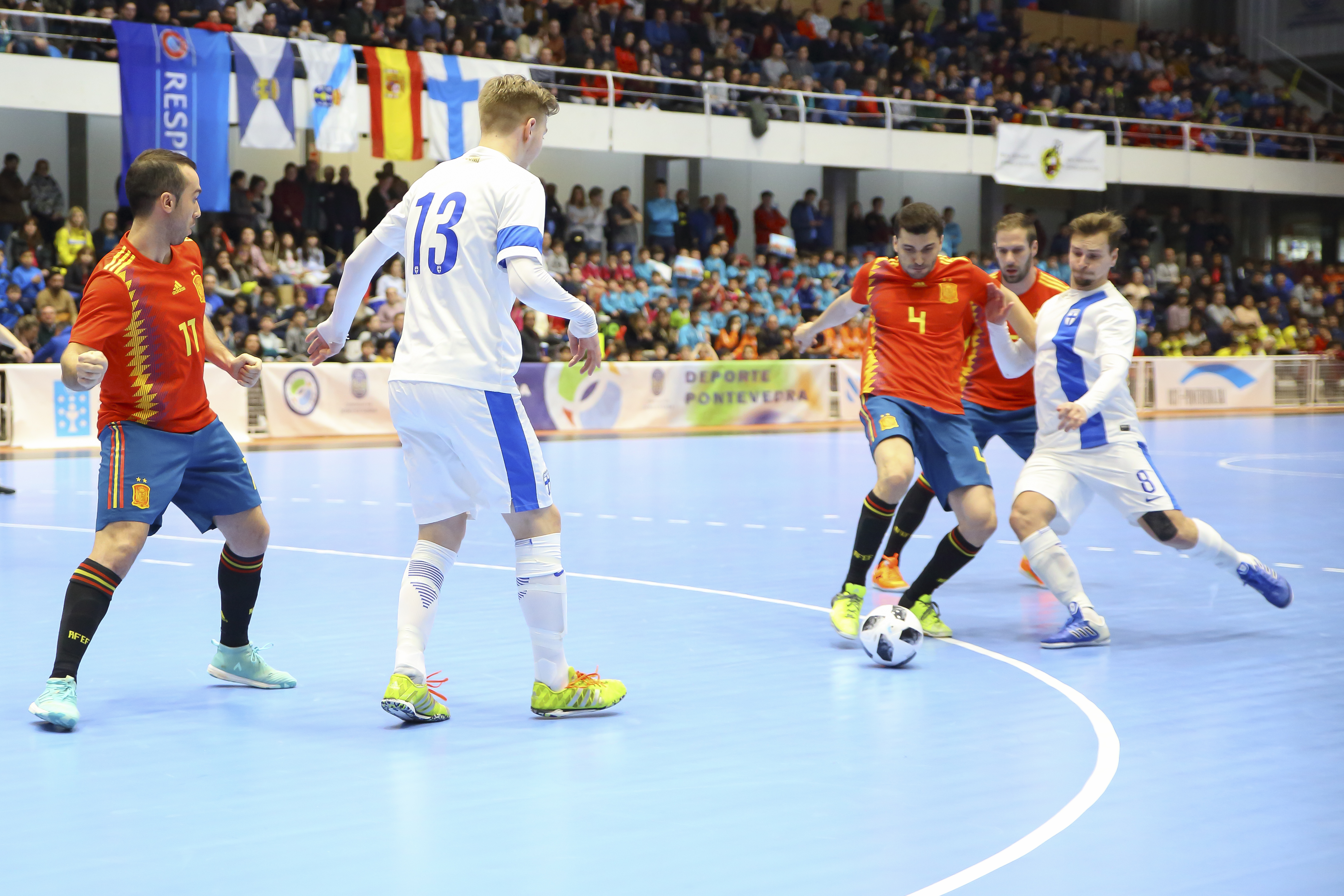 Futsal international friendly match between Spain and Finland at Pabellon Municipal de Pontevedra on April 2, 2018 in Pontevedra, Spain.